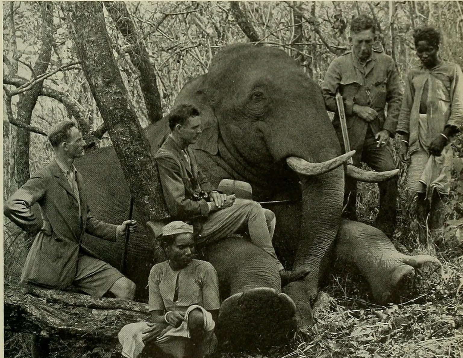 Arthur S. Vernay (seated next to elephant), J.C. Faunthorpe (right), two Sholega trackers, and R.C. Morris (standing left) in Mysore, 1923